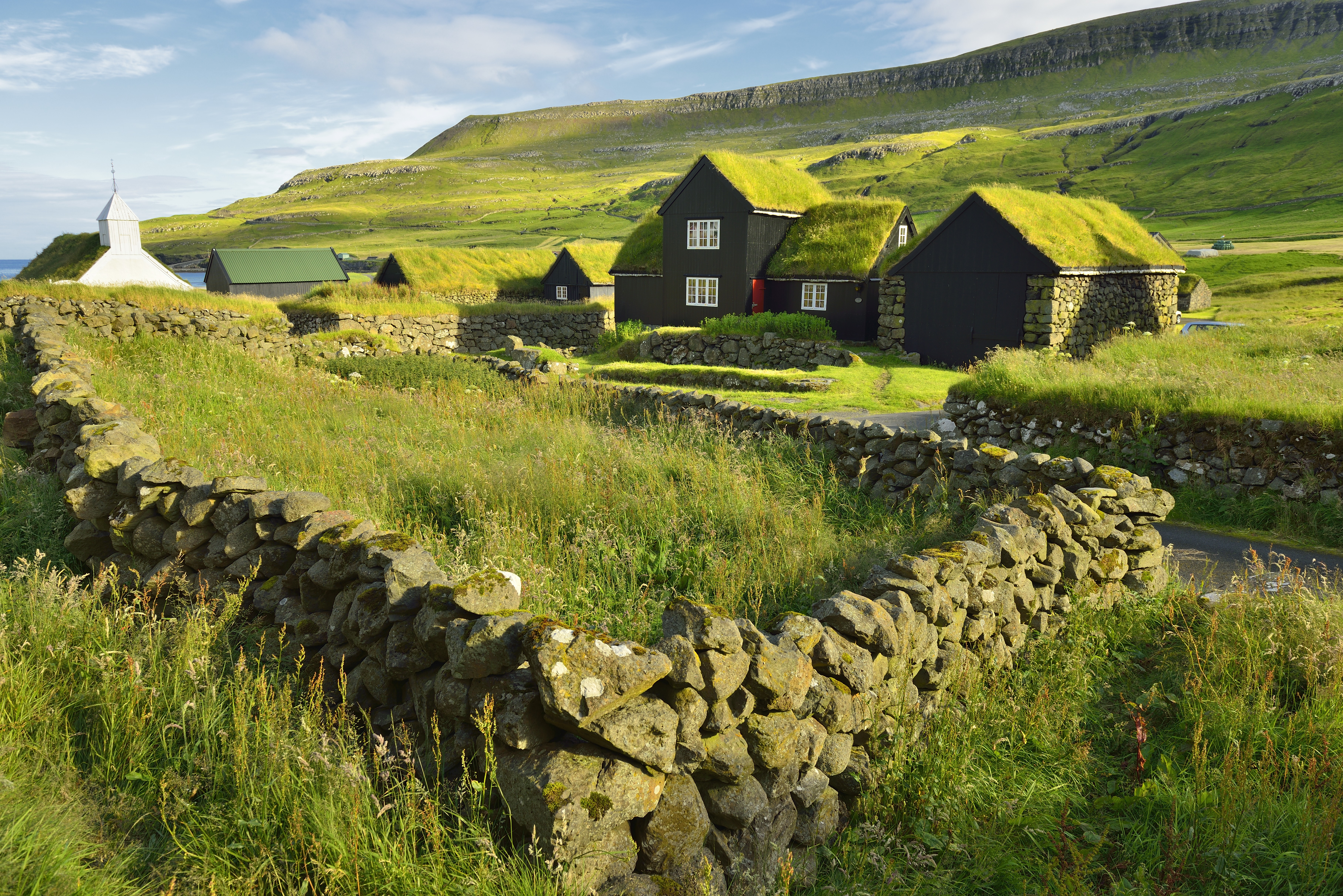 Húsavík in the Faroe Islands.